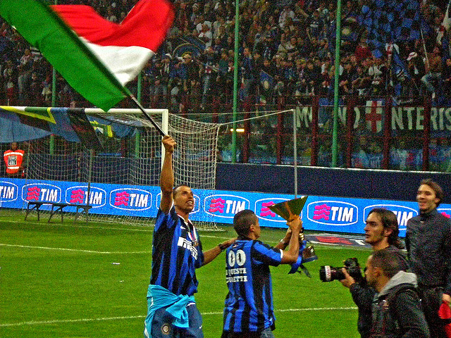 Cordoba with scudetto 2008.